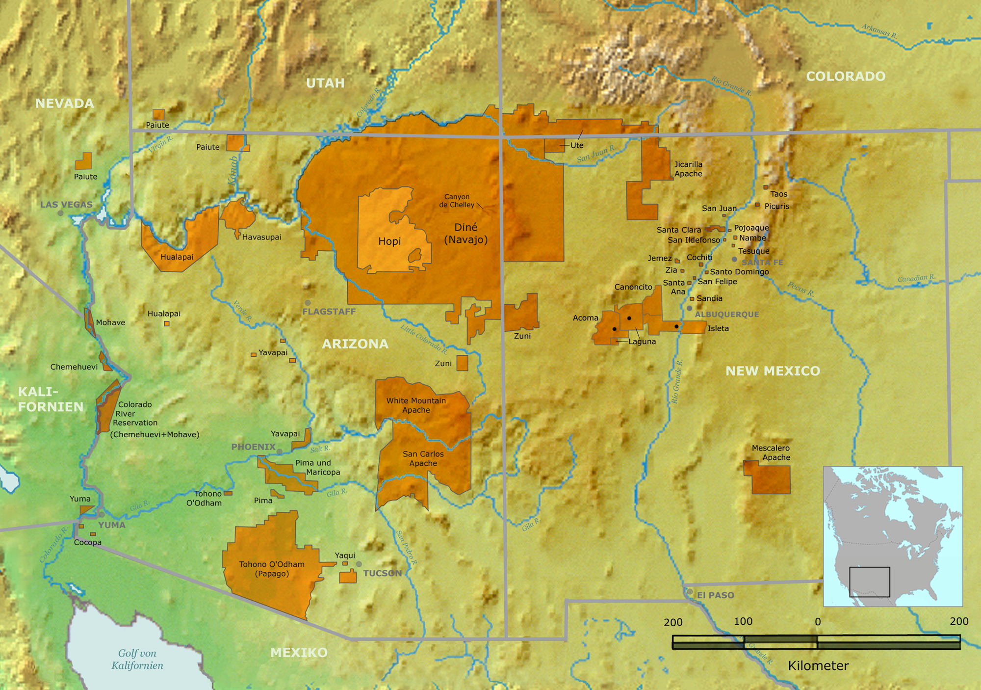 Indian Reservations of the South West (German version)